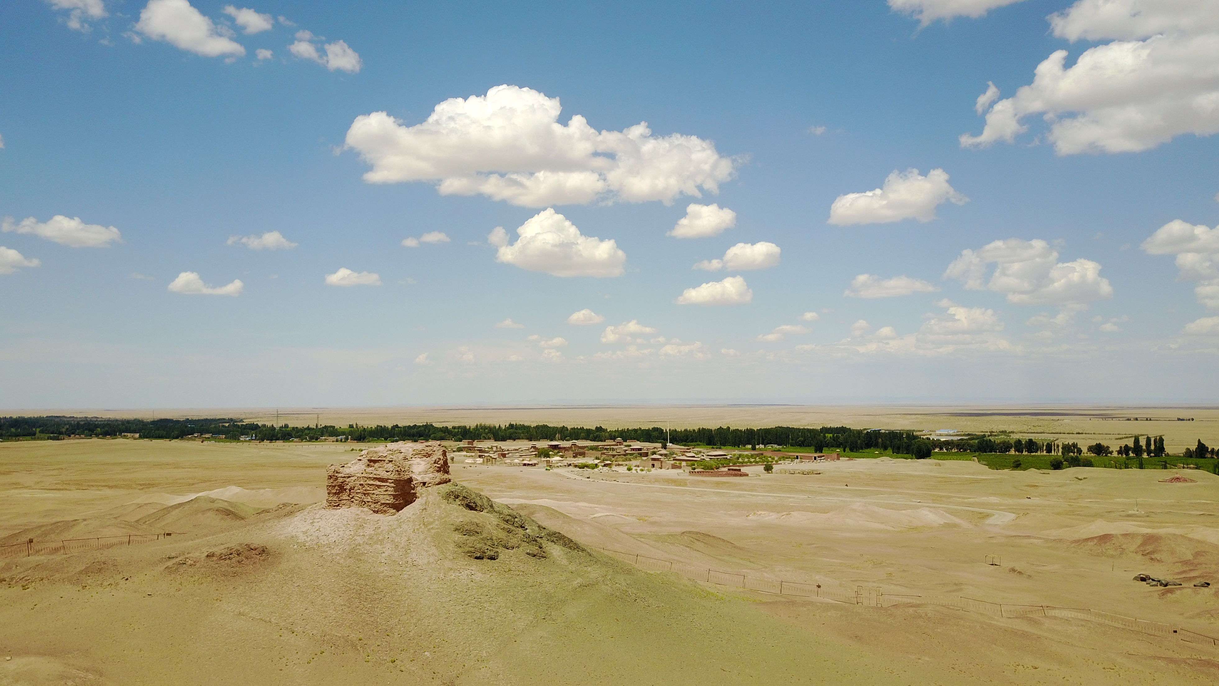 阳关烽燧遗址。大疆MAVIC拍摄。